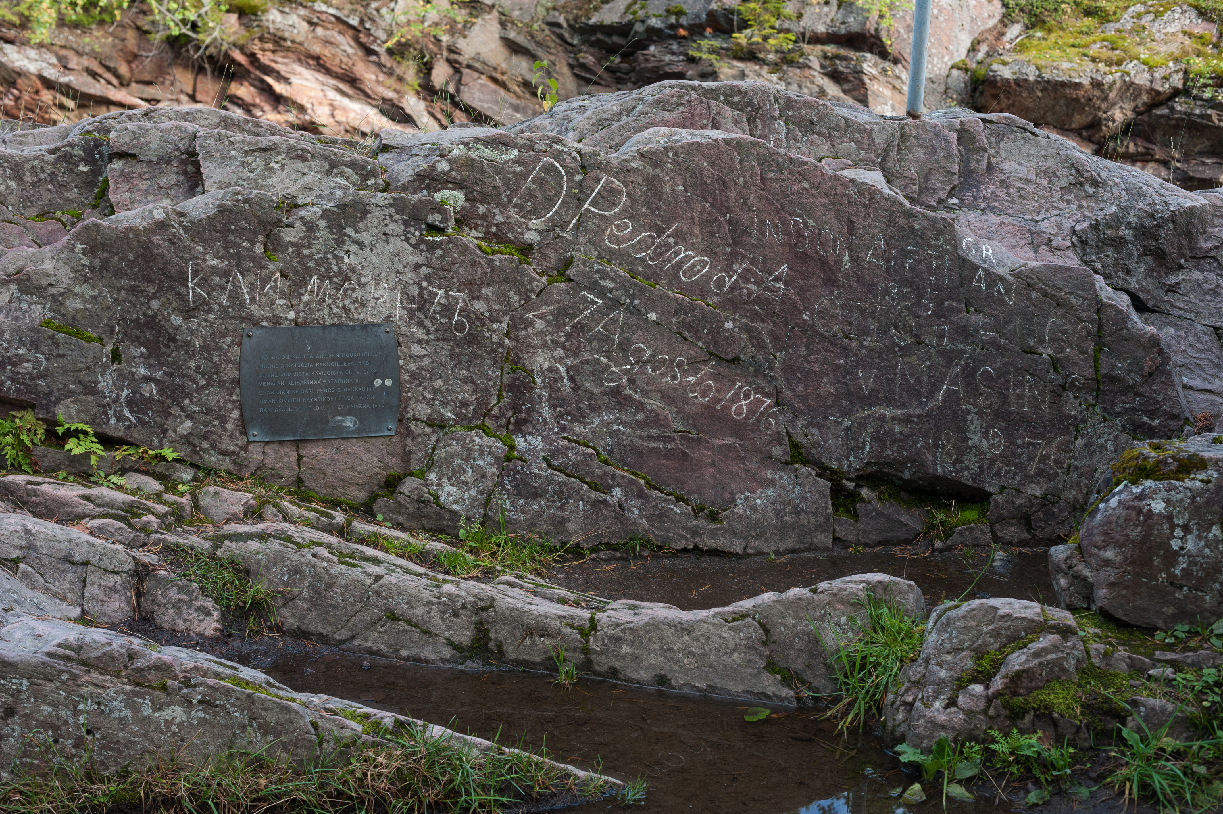 Pedro II, the emperor of Brazil, had his name engraved to a stone while visiting Imatrankoski, the Imatra Rapid, in Finland in 1876.